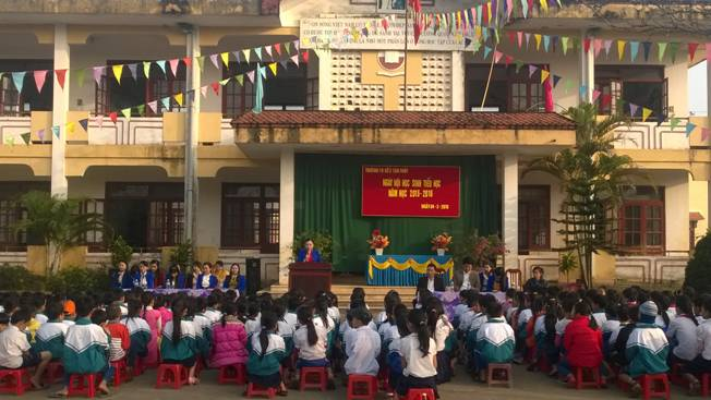 very good